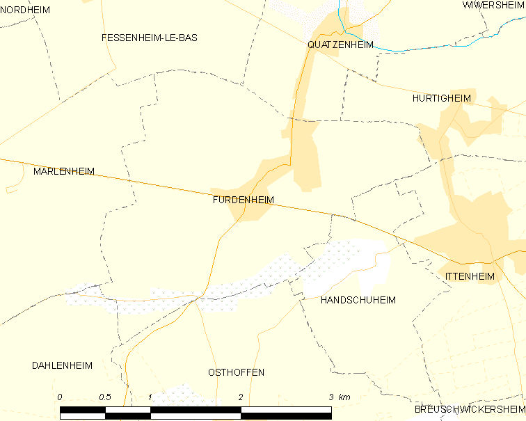 Map of French municipality